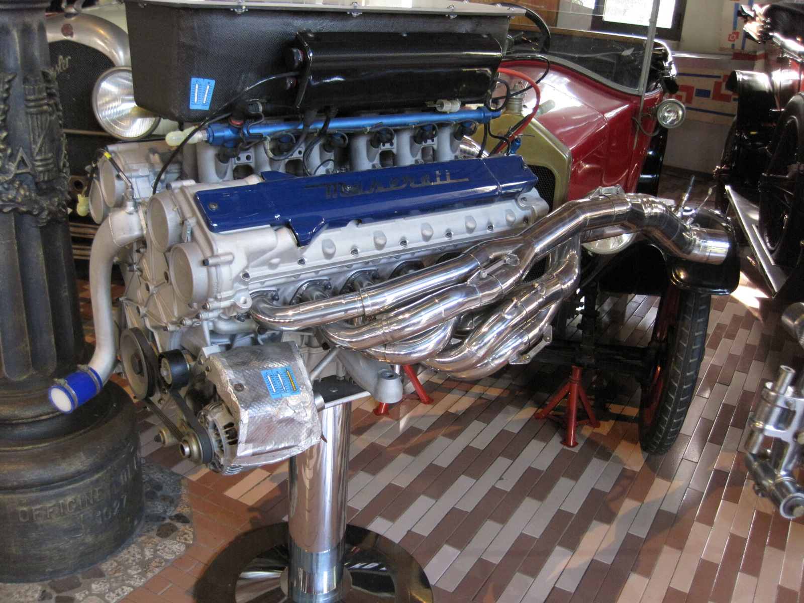 The Maserati M144A engine from an MC12 at the Panini Maserati Museum in Modena.